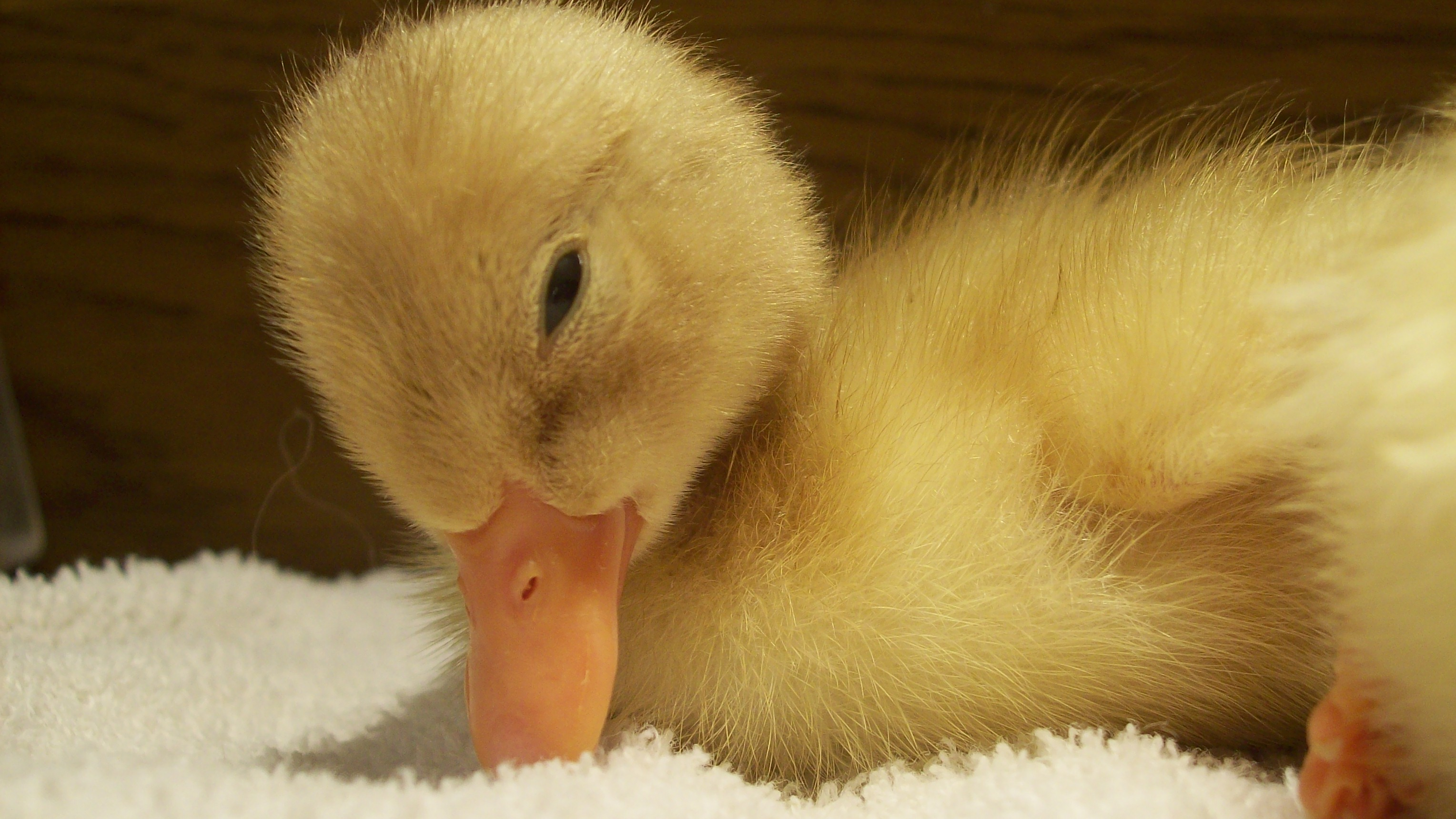 A Newly Hatched Pekin Duck